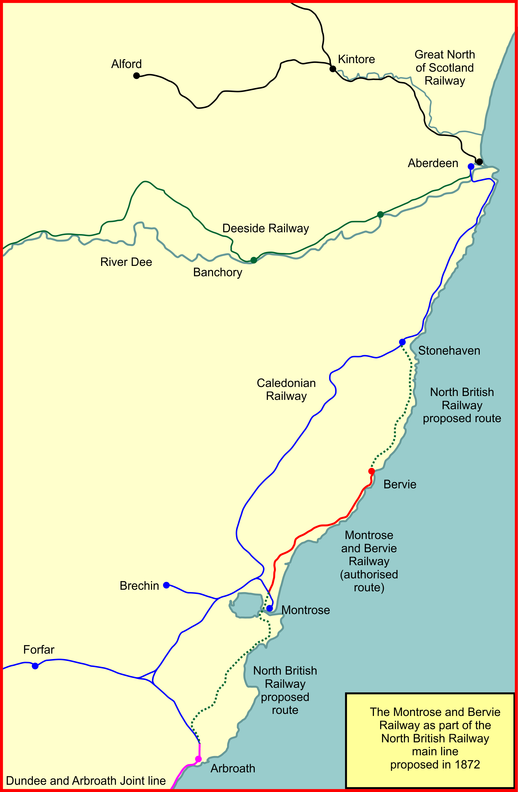 The Montrose and Bervie Railway and the North Brtitish Railway proposal for a through route